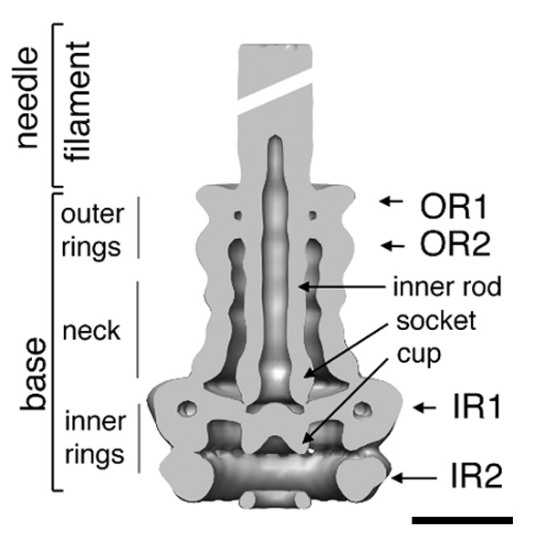 Cut-away view and description of individual substructures of the needle complex from Salmonella typhimurium. (OR = outer ring; IR = inner ring). The black line indicates 10 nanometers.